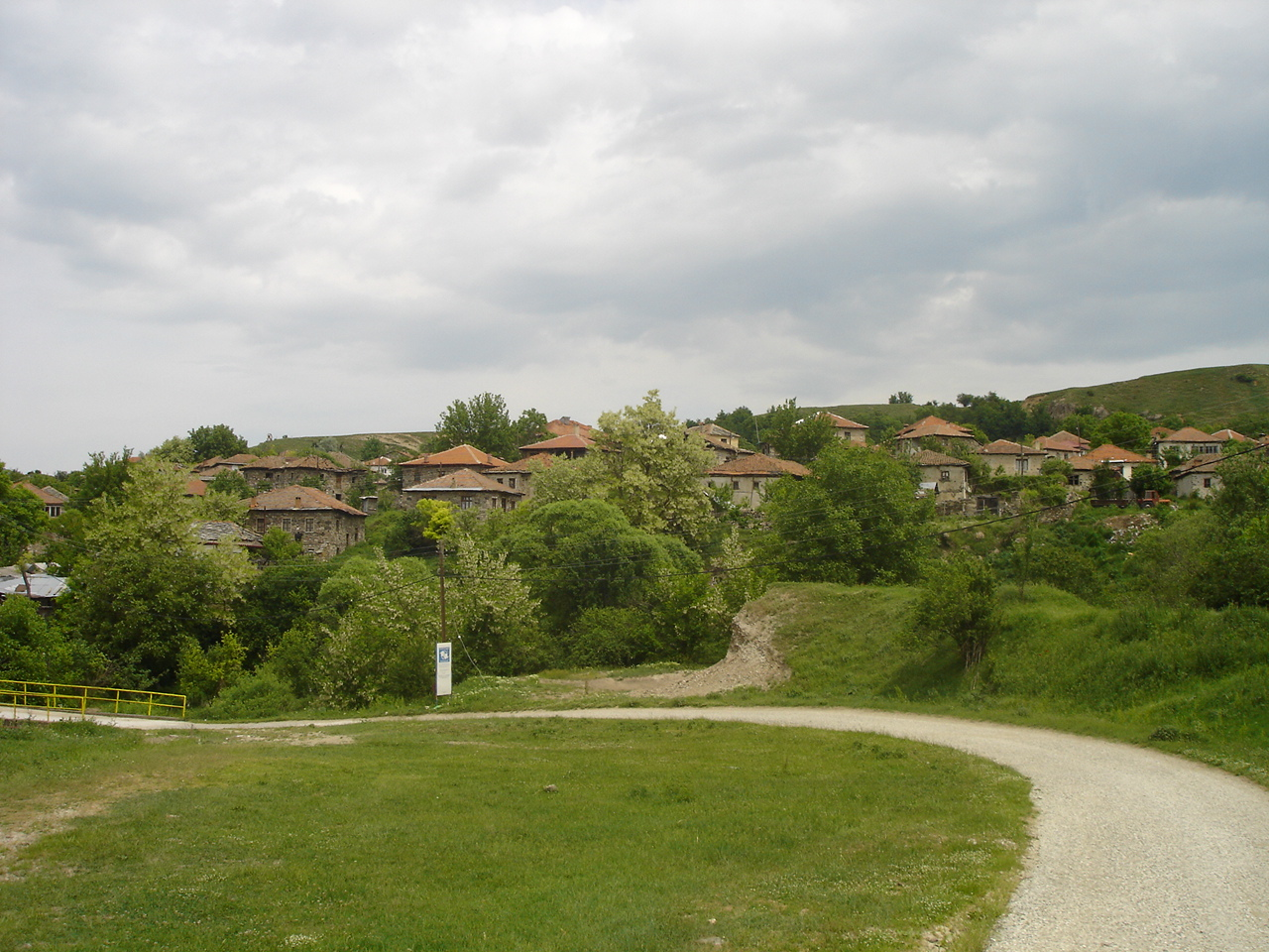 village of Vitolishte in Mariovo region, Macedonia